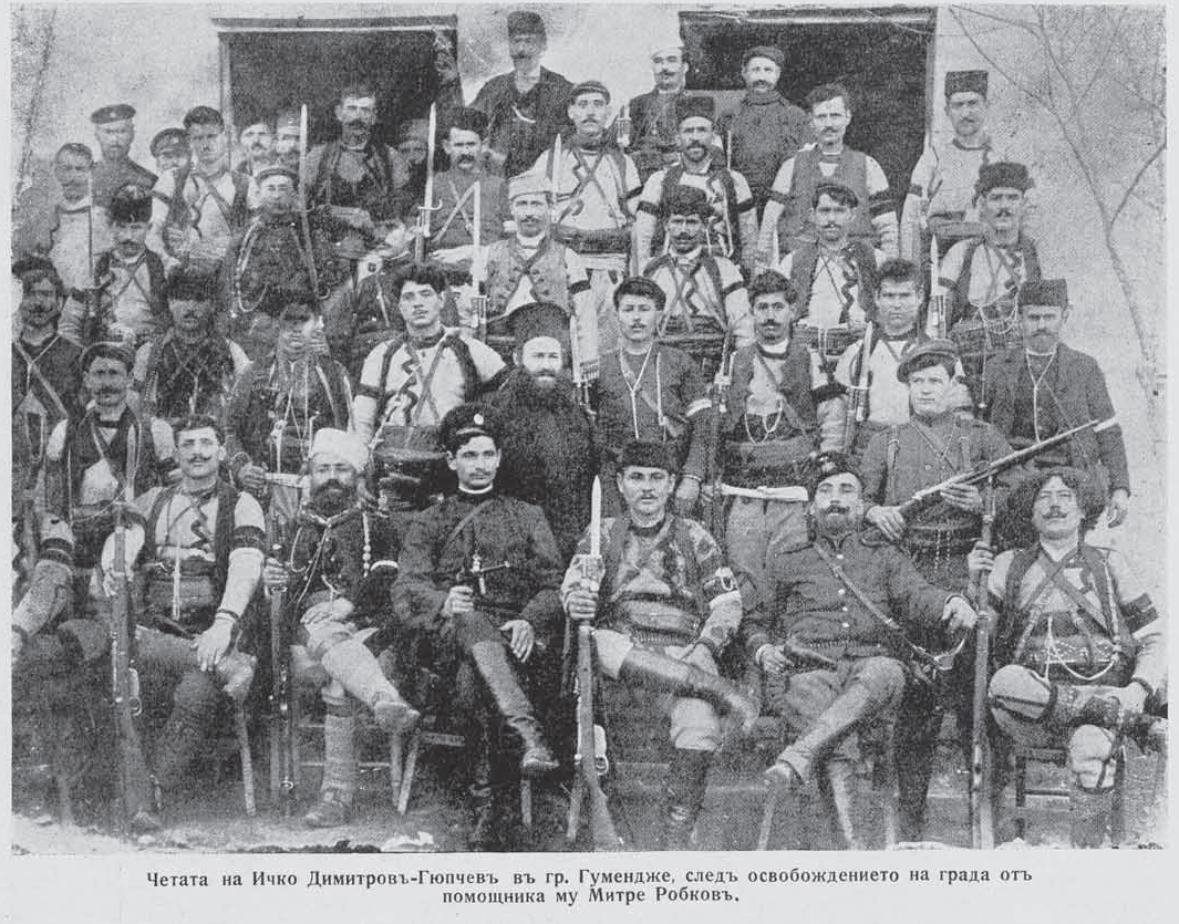 Cheta of Ichko Dimitrov in Gumendzhe